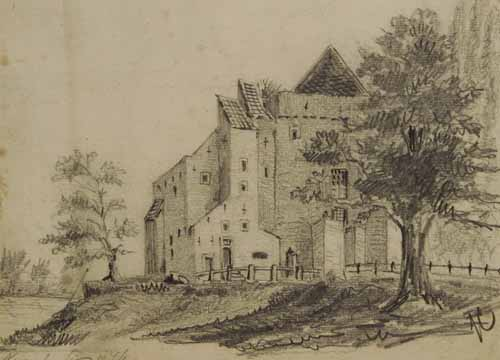 Castle Nijenbeek, Netherlands